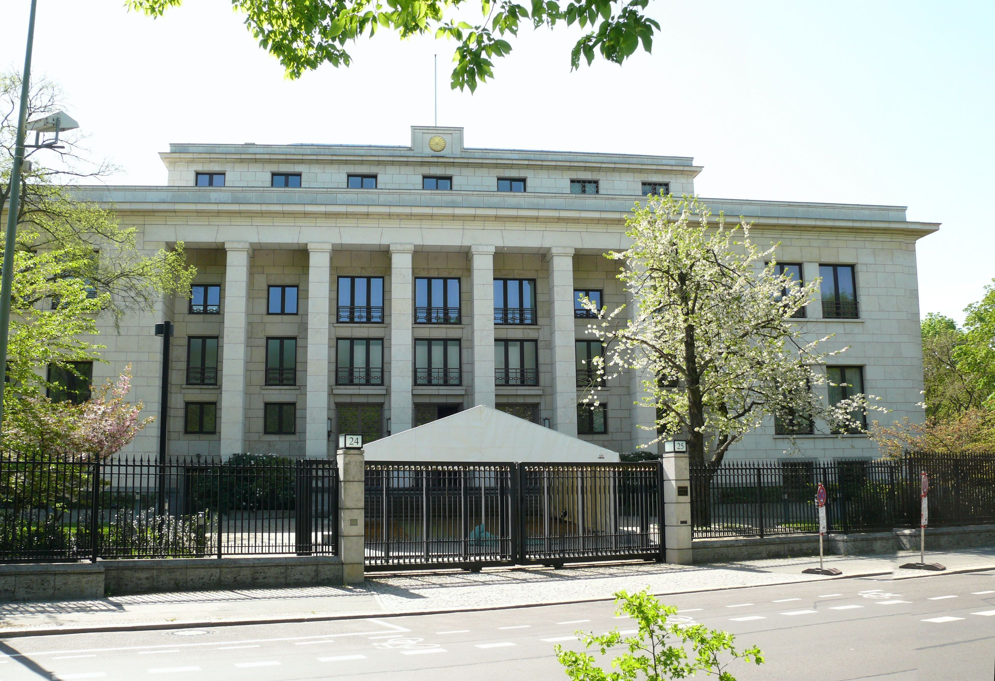 Berlin-Tiergarten Tiergartenstraße Japanische Botschaft